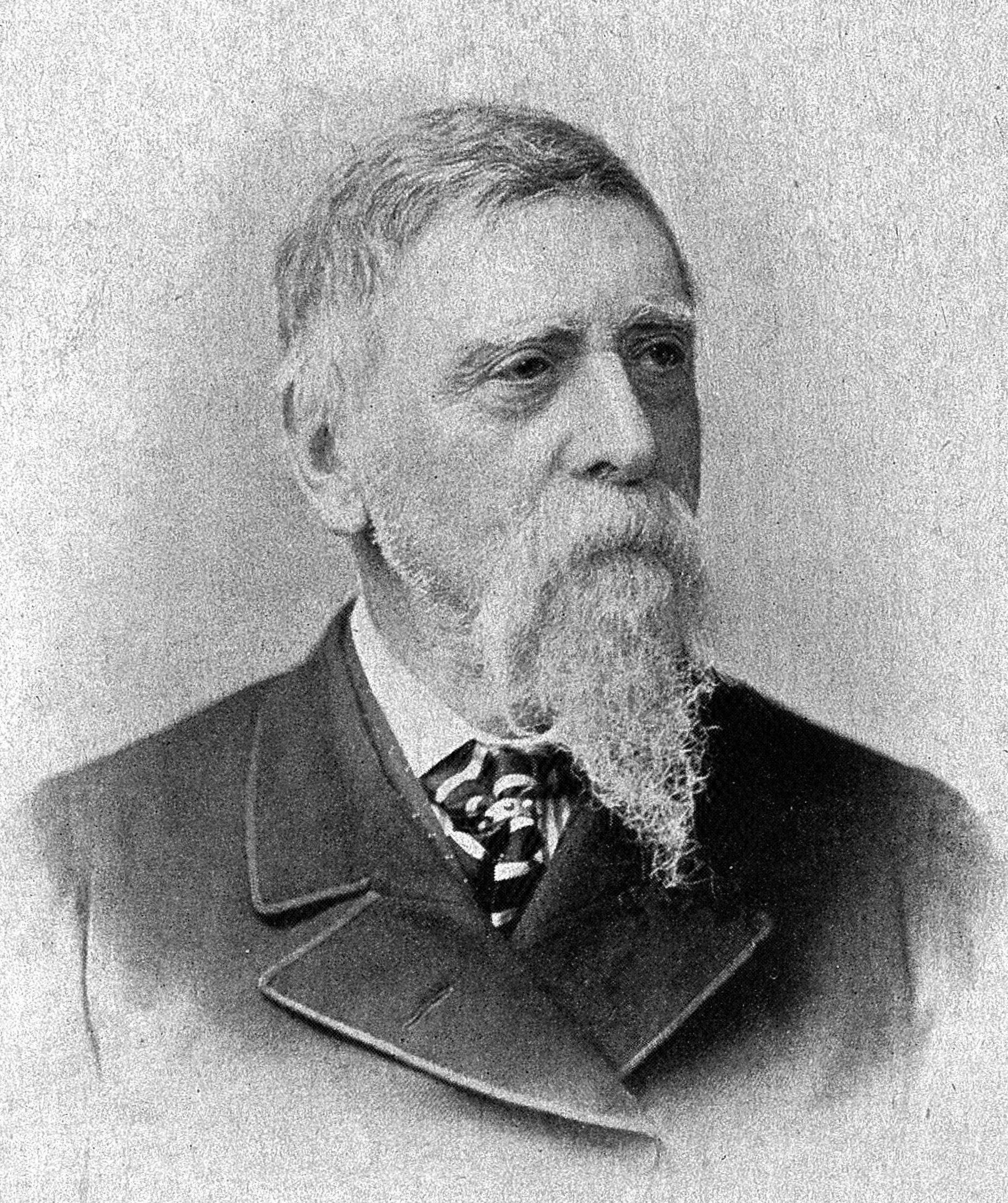 Thomas Garnier Parry